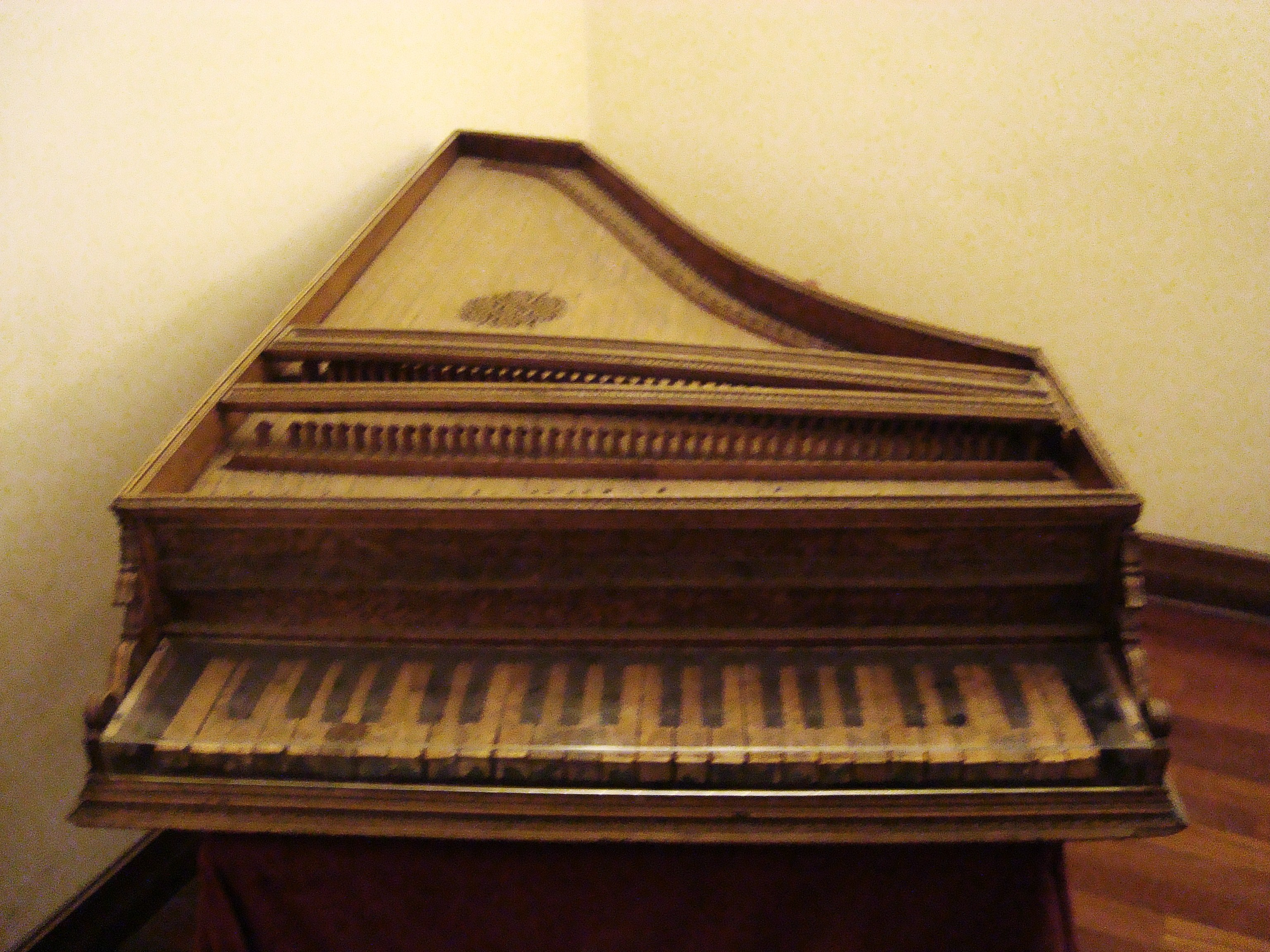 Harpsichord by Hans Muller manufactured in 1537. This instrument is the oldest German harpsichord known. Collections Museo Nazionale degli Strumenti Musicali di Roma